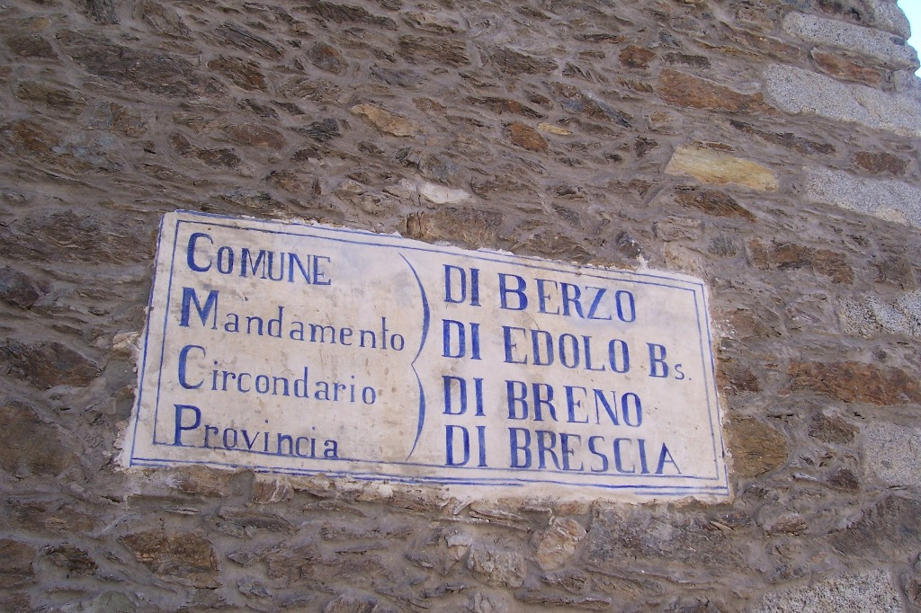 Berzo, Berzo Demo